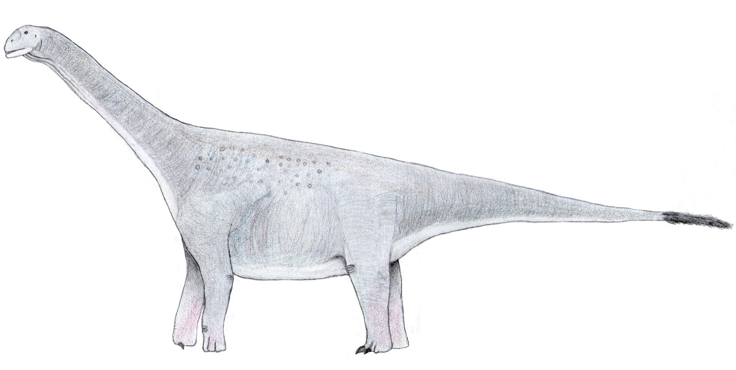 Recreation of a Turiasaurus riodevensis